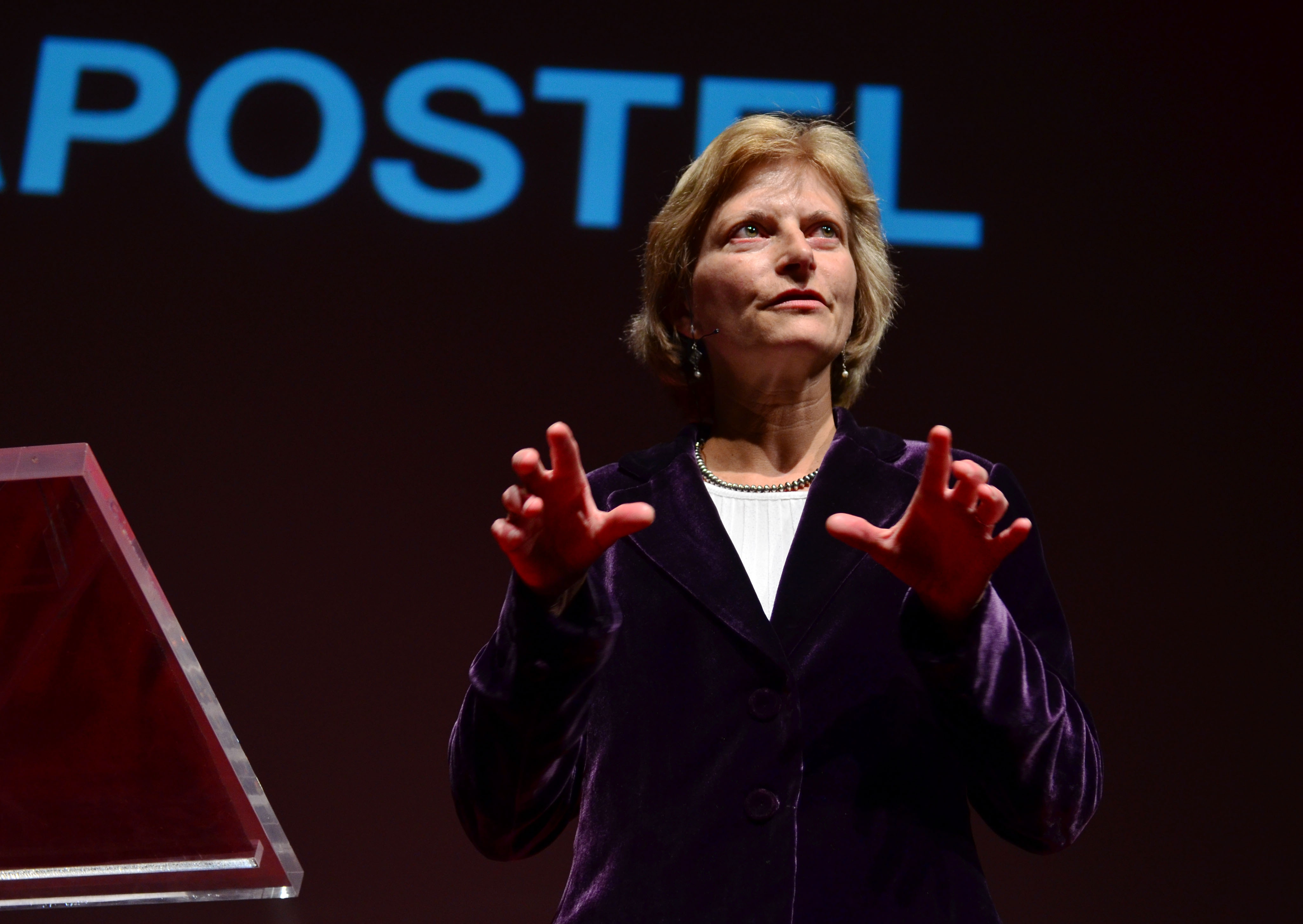 WASHINGTON DC, NOVEMBER 5th, 2010 -- Sandra Postel talks about the global issues in managing water while presenting at the TEDxMidAtlantic conference at Sidney Harman Hall in Washington. -- PHOTO BY Andy Babin / TEDxMidAtlantic